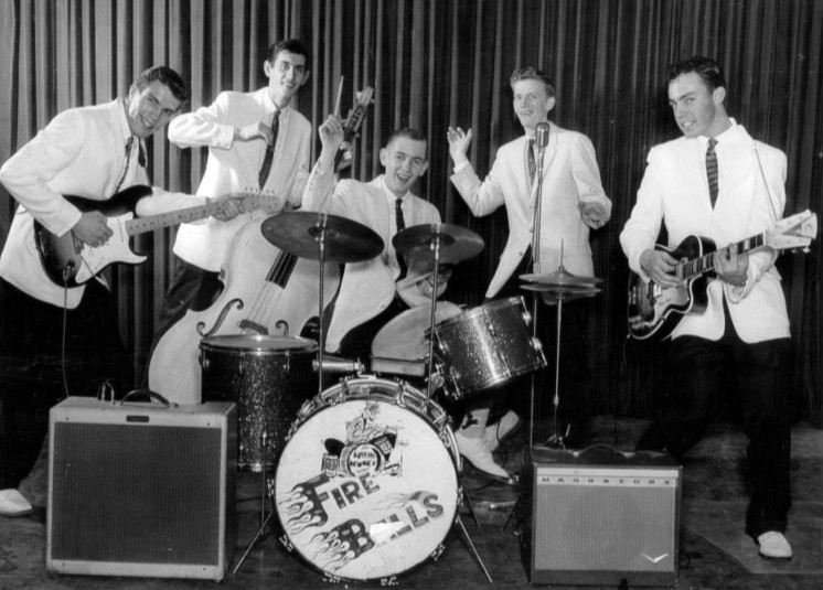 Photo of the musical group The Fireballs. The photo was taken as the group had just started to become known and had recently been signed to a contract with Kapp Records. From left: George Tomsco, Stan Lark, Eric Budd, Don Trammel, and Chuck Tharp.